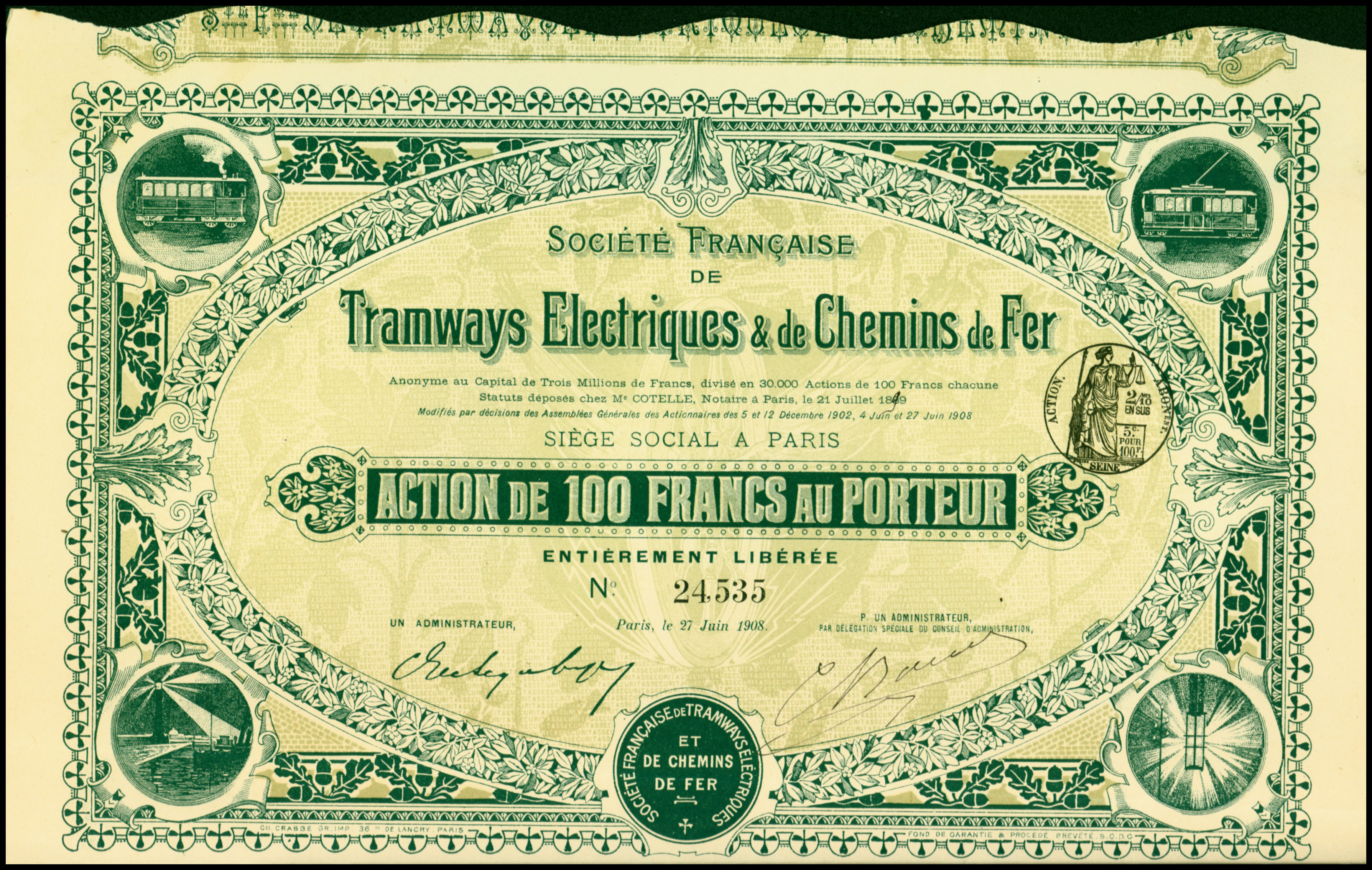 Share of the Société française de tramways électriques et de chemins de fer, issued 27. June 1908